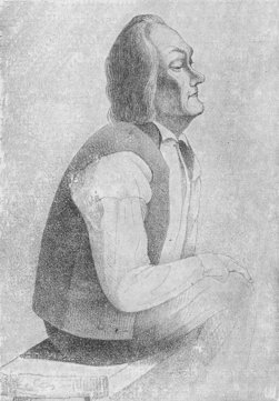 Paavo Ruotsalainen, Finnish lay preacher and leader of the Pietism movement in Finland